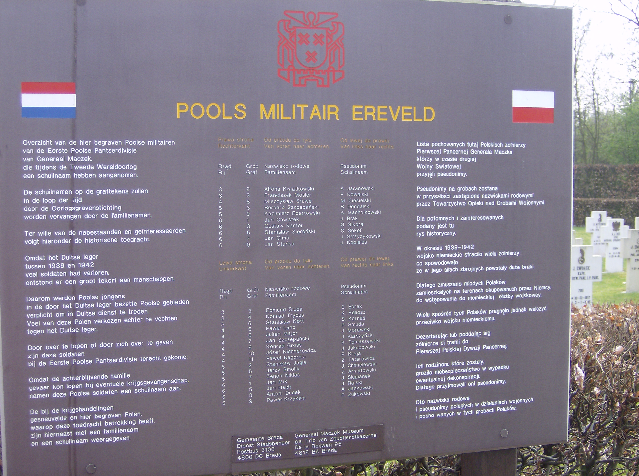 Information and the list of the soldiers burried at the at the Polish military cemetery in Breda, the Netherlands. The list shows the names and their eventual pseudonym